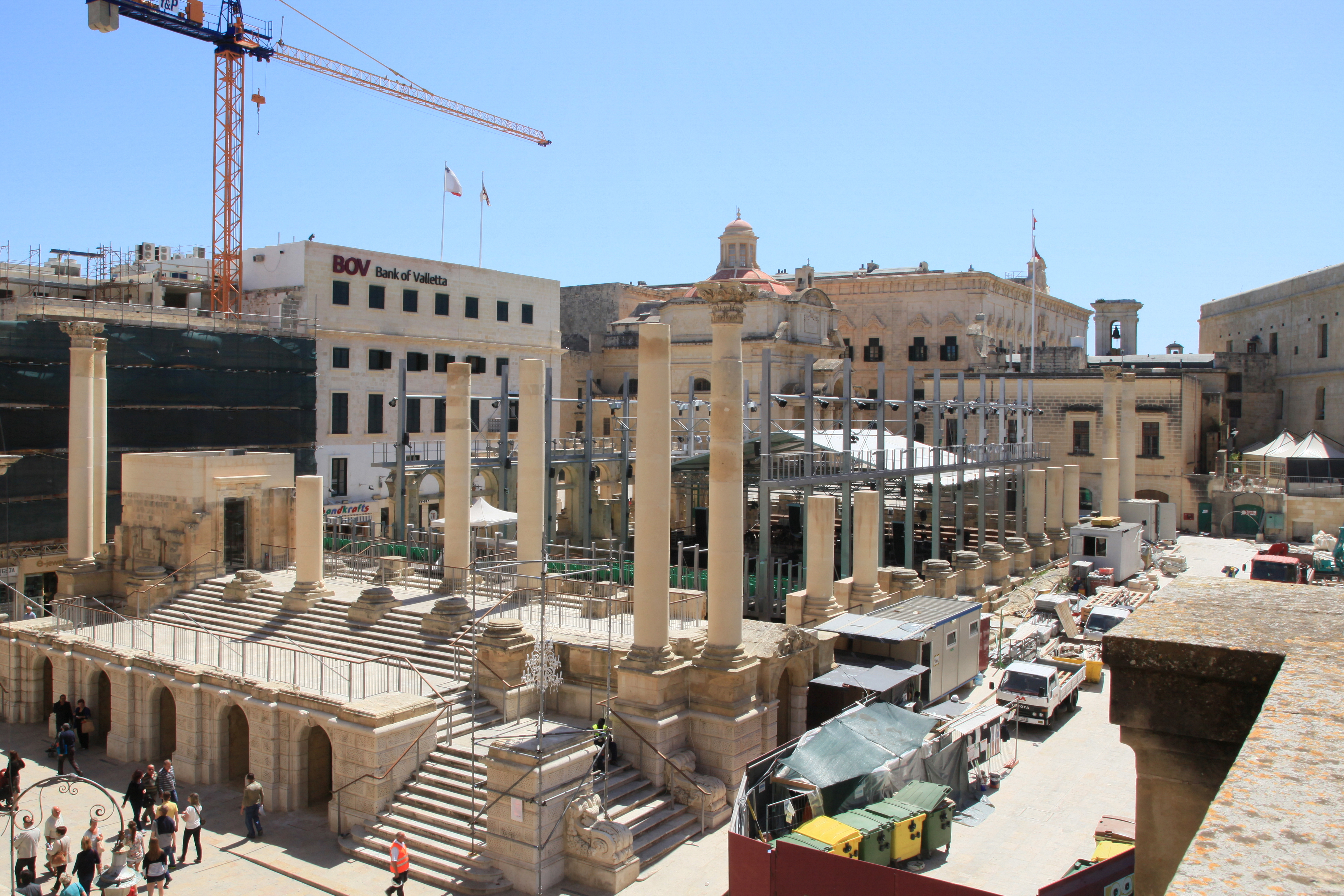 Royal Opera House, Triq ir-Repubblika in Valletta, Malta